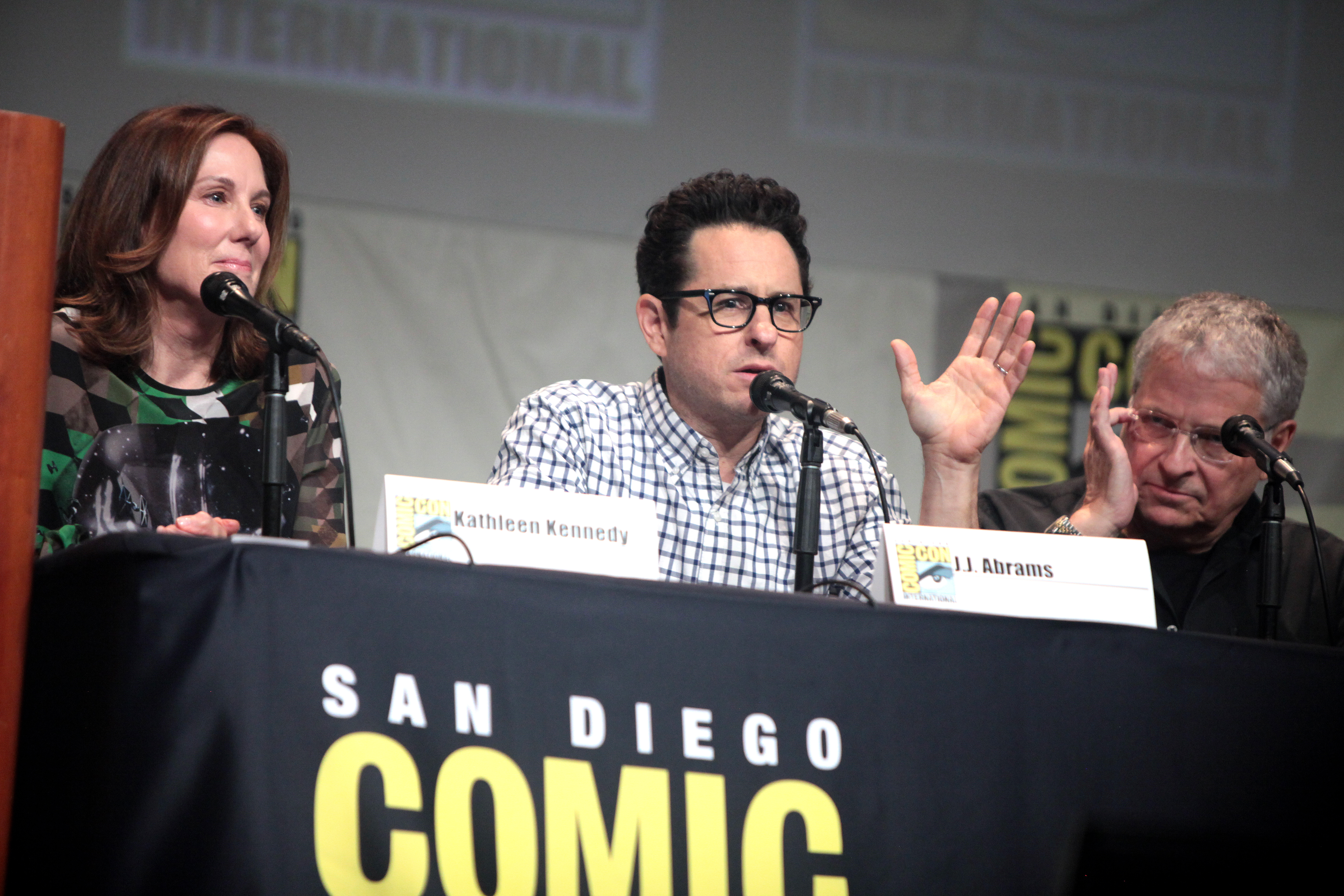 Kathleen Kennedy, J. J. Abrams and Lawrence Kasdan speaking at the 2015 San Diego Comic Con International, for "Star Wars: The Force Awakens", at the San Diego Convention Center in San Diego, California.